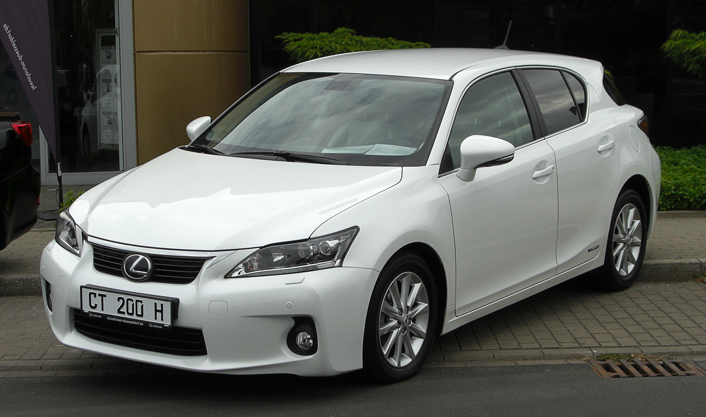 Lexus CT 200h Dynamic Line (ZWA10)